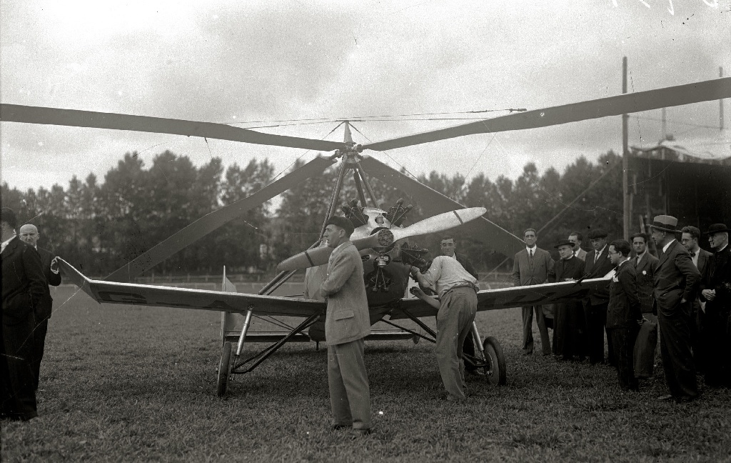 A Cierva C.12 autogyro in Lasarte, 1930.